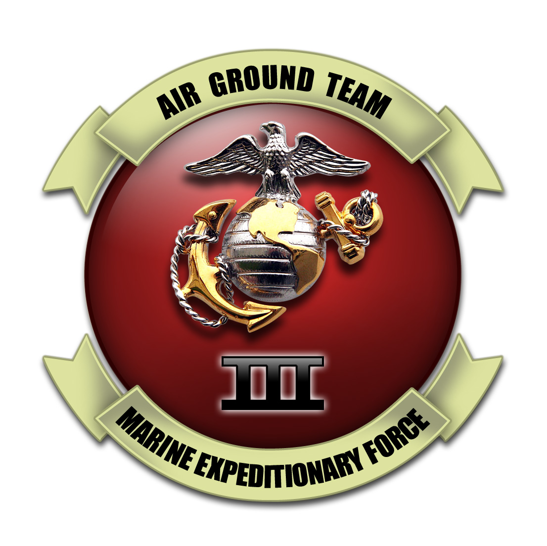 Official logo of III Marine Expeditionary Force